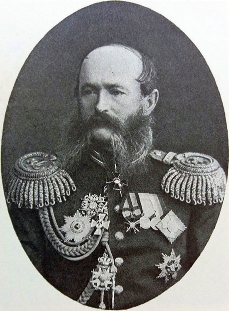 Свиты Его Величества генерал-майор Данилов Михаил Павлович